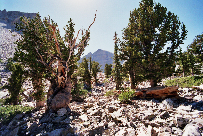 The Pinus longaeva grove in which the Prometheus tree grew. Prometheus was the oldest extant tree when felled in 1964. The photo shows the Wheeler Peak headwall in the distance.